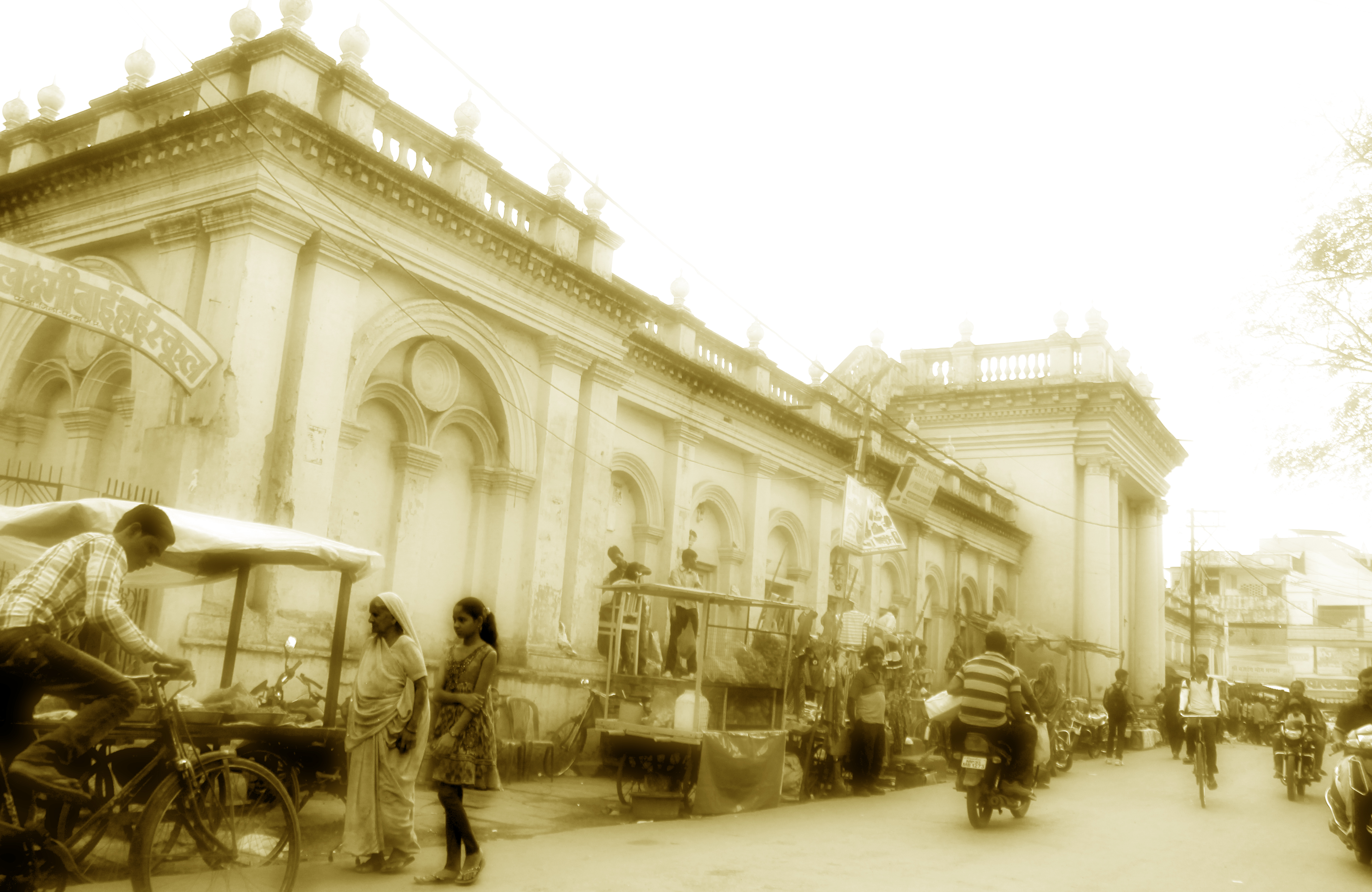 A street near Baldau temple Panna